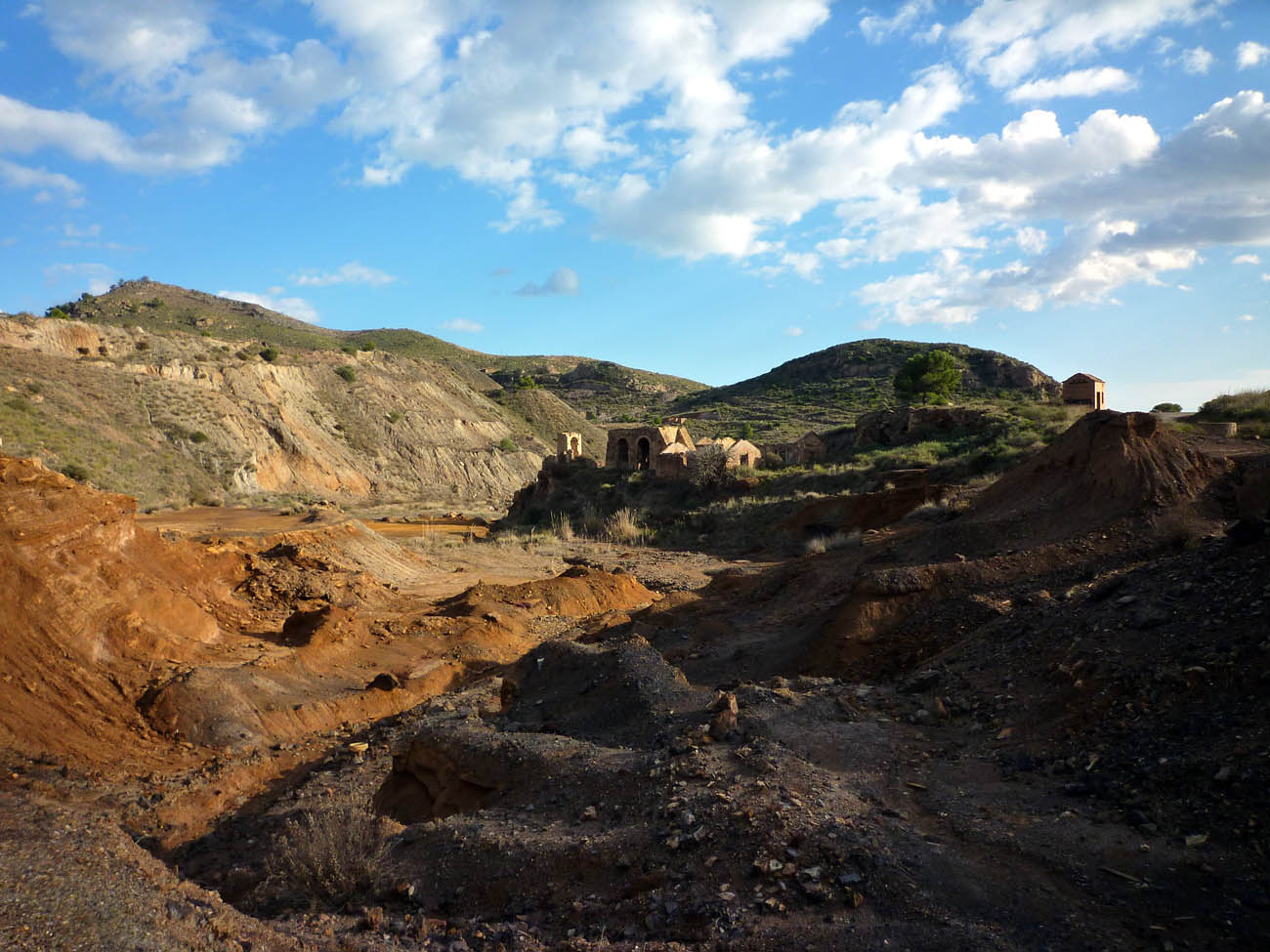 The ruins of "Mina Inocente", a XIX century mine in Cartagena